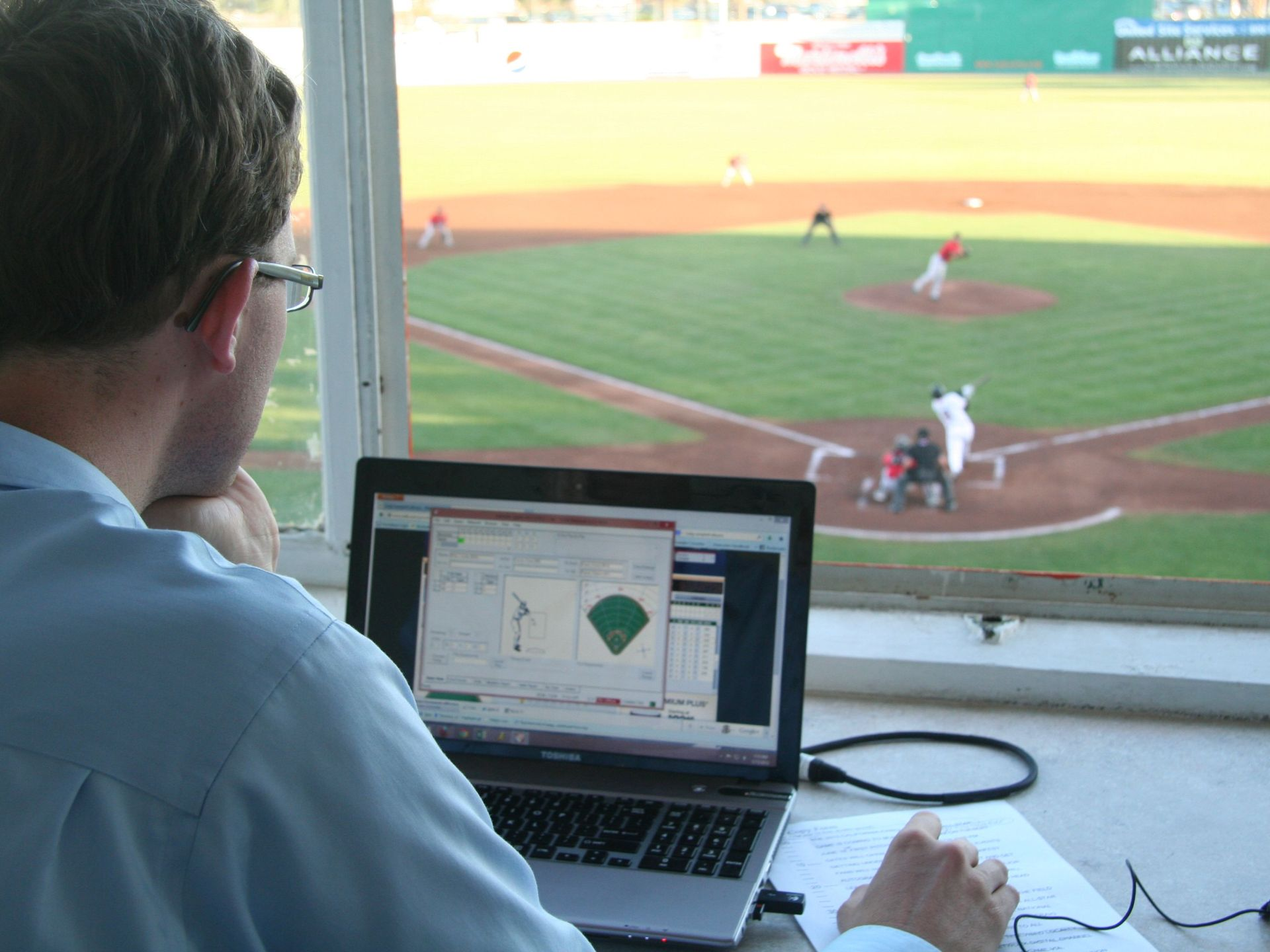 "During a 2 1/2-hour game, I can add up to 500 pieces of data using the Gameday client," said Ben Taylor, media relations coordinator for the San Jose Giants. See more: Moneyball Brings Big Data to Silicon Valley's Minor League San Jose Giants use big data technologies to engage fans in the epicenter of the tech industry. Baseball is a game of skill and statistics, and analyzing them effectively to evaluate players is a given in the Moneyball era. It's not just scouts and general managers either; major league fans have been able to access game stats in real time for several years and now the big data technologies that help make sense of all those numbers are trickling down to Silicon Valley's own single A minor league team, the San Jose Giants. Gameday, a pitch-by-pitch application, is one of the data technologies used to feed real-time game action to Major League Baseball fans. Now the lower levels of the game, the farm leagues where many future major leaguers are playing today, are beginning to adopt the technology. "It's tech that every Major League team uses, and almost all triple A level teams are using it, but we're among the first single A teams to use it," said Ben Taylor, media relations coordinator for the San Jose Giants.